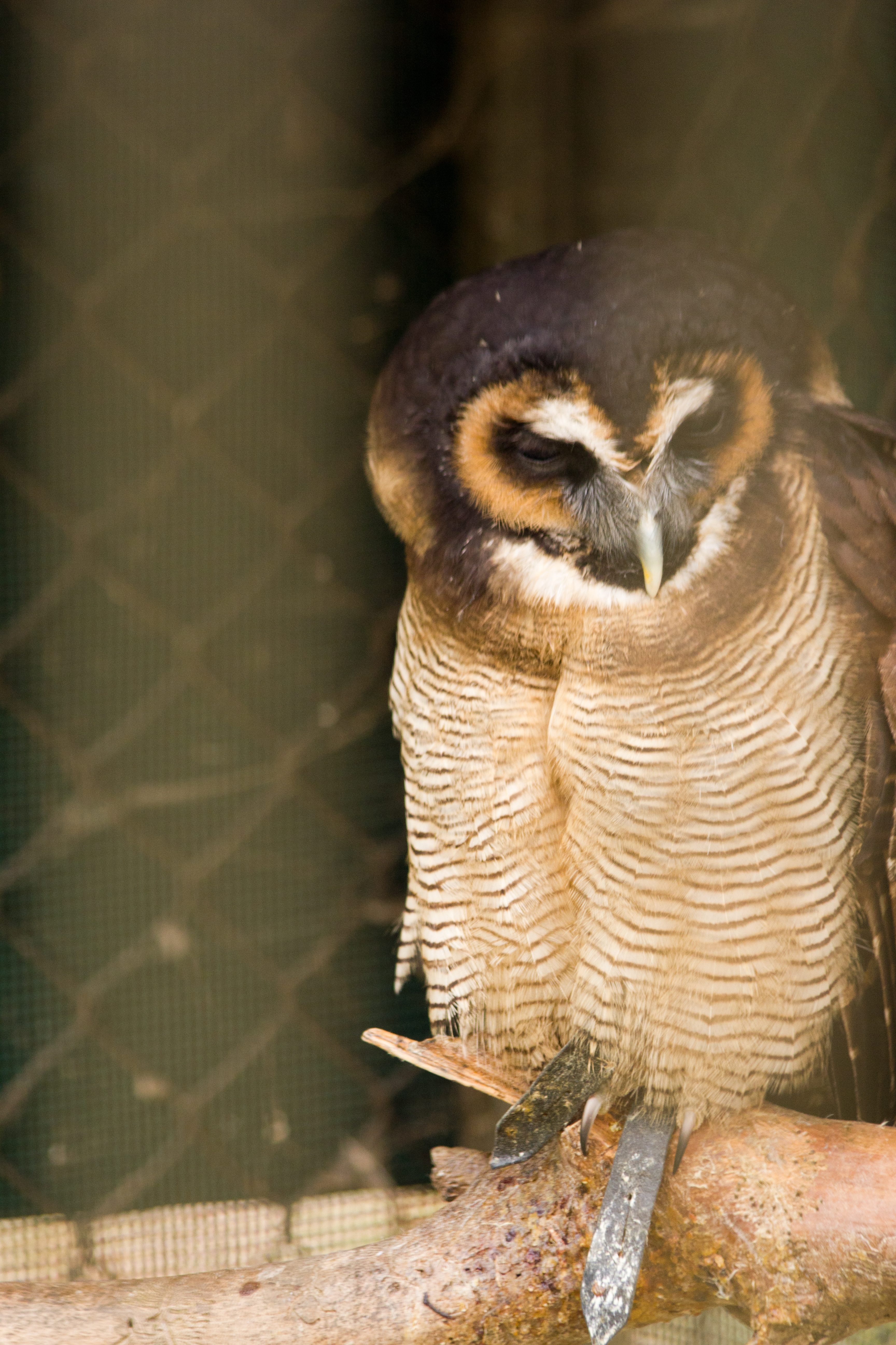 Photo of a Spotted Wood-Owl in captivity. Not sure about the correct name in English.